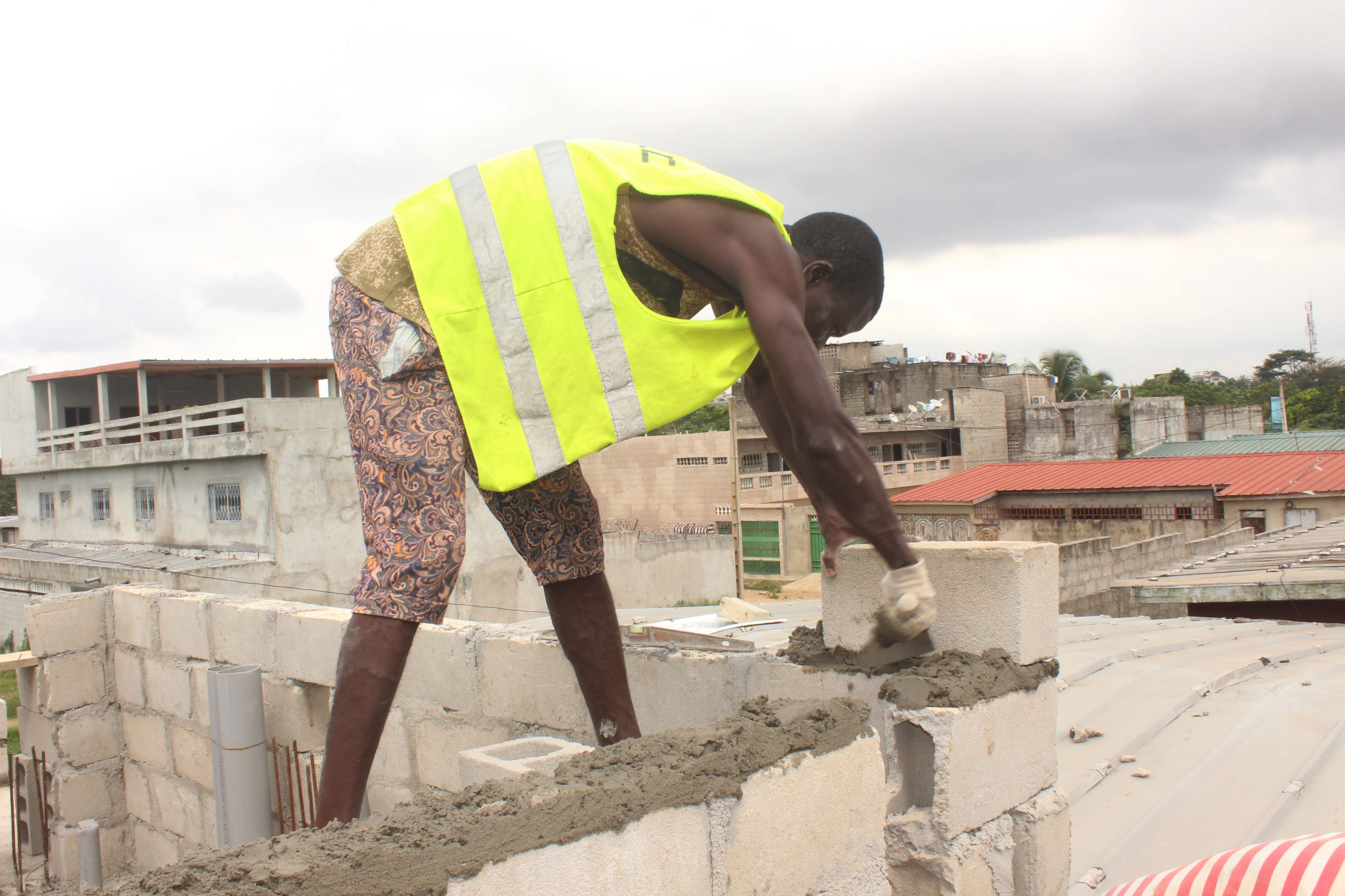 Ido: un maçon à Abobo-doumé Abidjan This is an image of "African people at work" from Ivory Coast